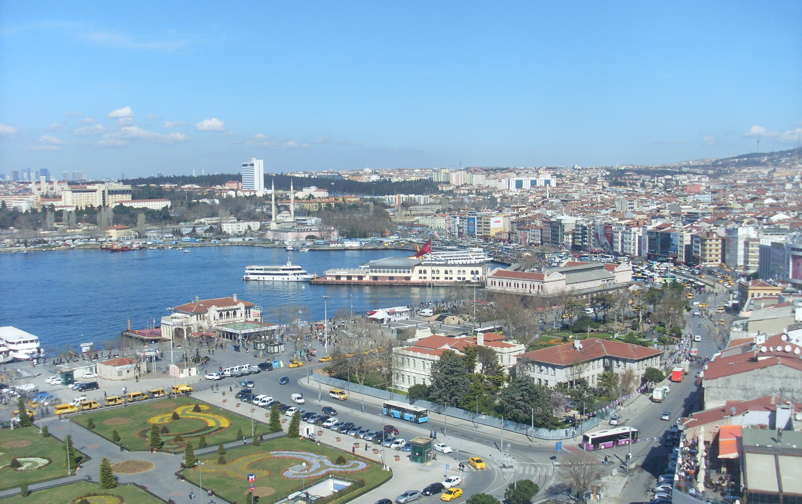 Kadıköy